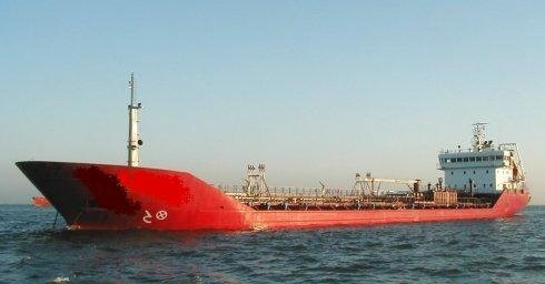 Motor Tanker Montauk